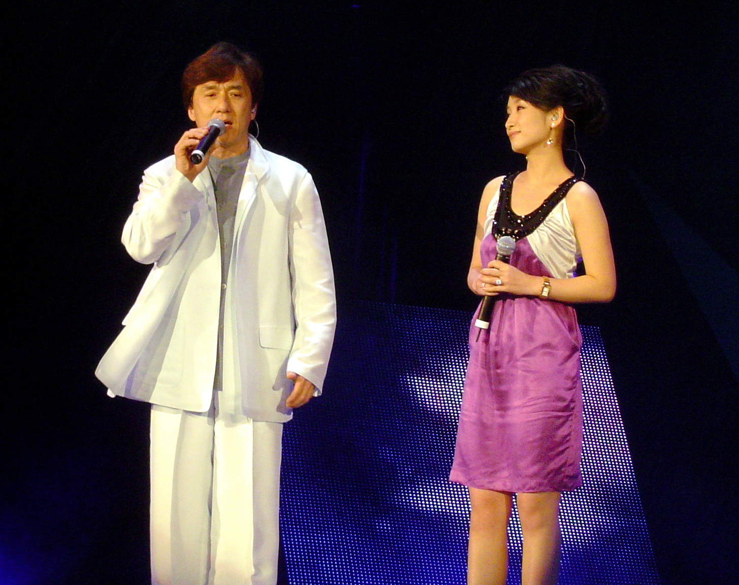 Jackie Chan and a female singer